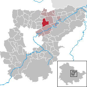 Liebstedt in Thuringia - District Weimarer Land